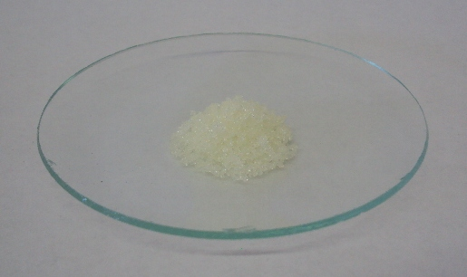 Potassium nitrite